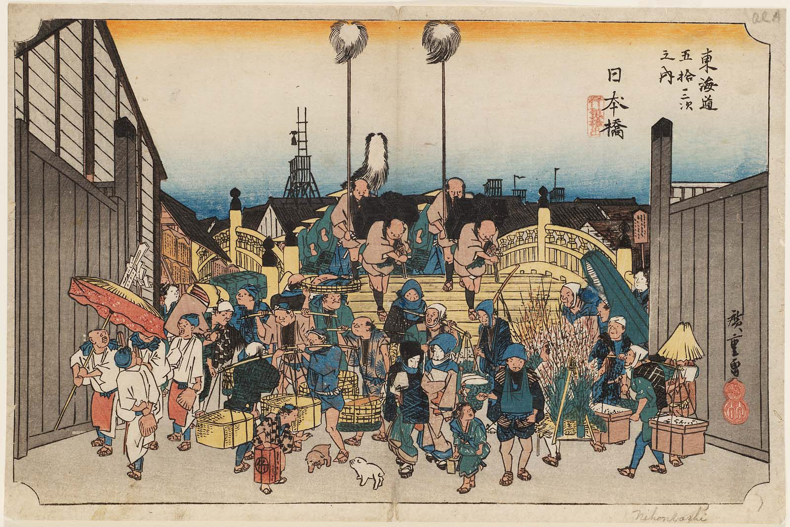 Daimyō Procession Setting Out (Nihonbashi, gyōretsu furidashi, 行列振出) Second version, with altered subtitle; published by Hōeidō (竹) alone.